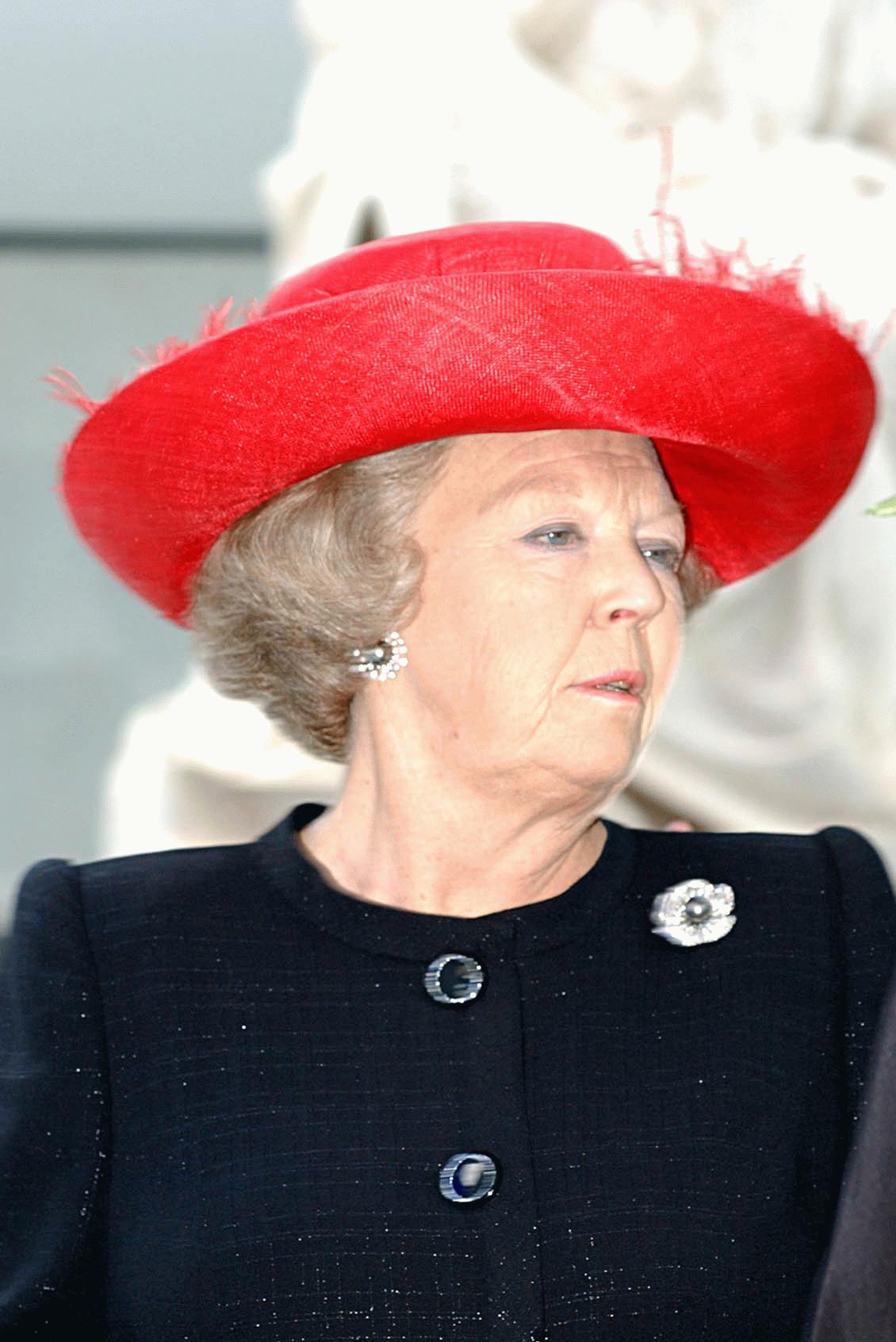 Queen Beatrix of the Netherlands.